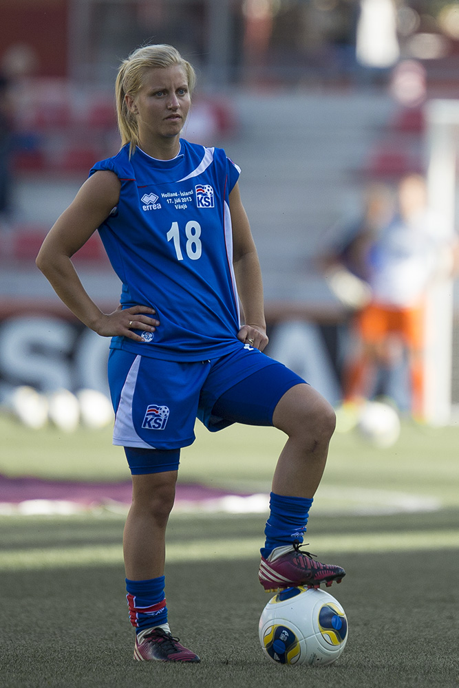 Guðný Björk Óðinsdóttir warm-up against The Netherlands att Sweden 2013